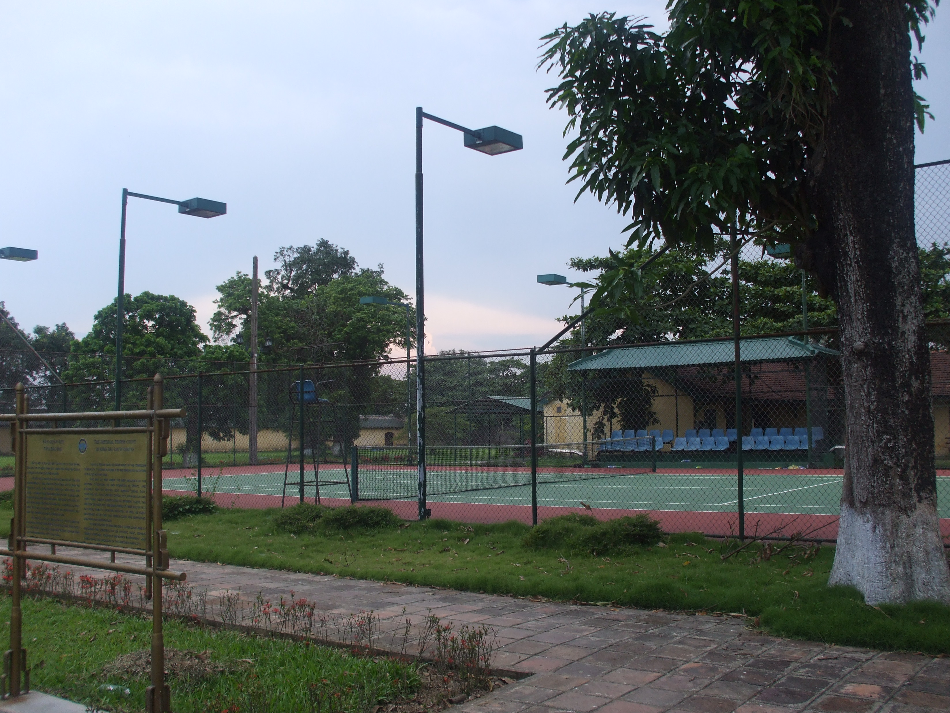 Tennis court of Emperor Bảo Đại from 1933, in the Purple Forbidden City.